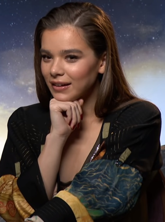 Watch the stars of new Transformers movie, Bumblebee, Hailee Seinfeld and John Cena, play a hilarious game of COMPLETE THE LYRICS: 1980s vs 2010s Edition! Plus, watch the cast and director Travis Knight reveal what it was like to record Bumblebee’s voice with Dylan O’Brien, which Transformer they want to make a spinoff movie on next, and why Hailee Seinfeld has plans to join the Avengers movies!